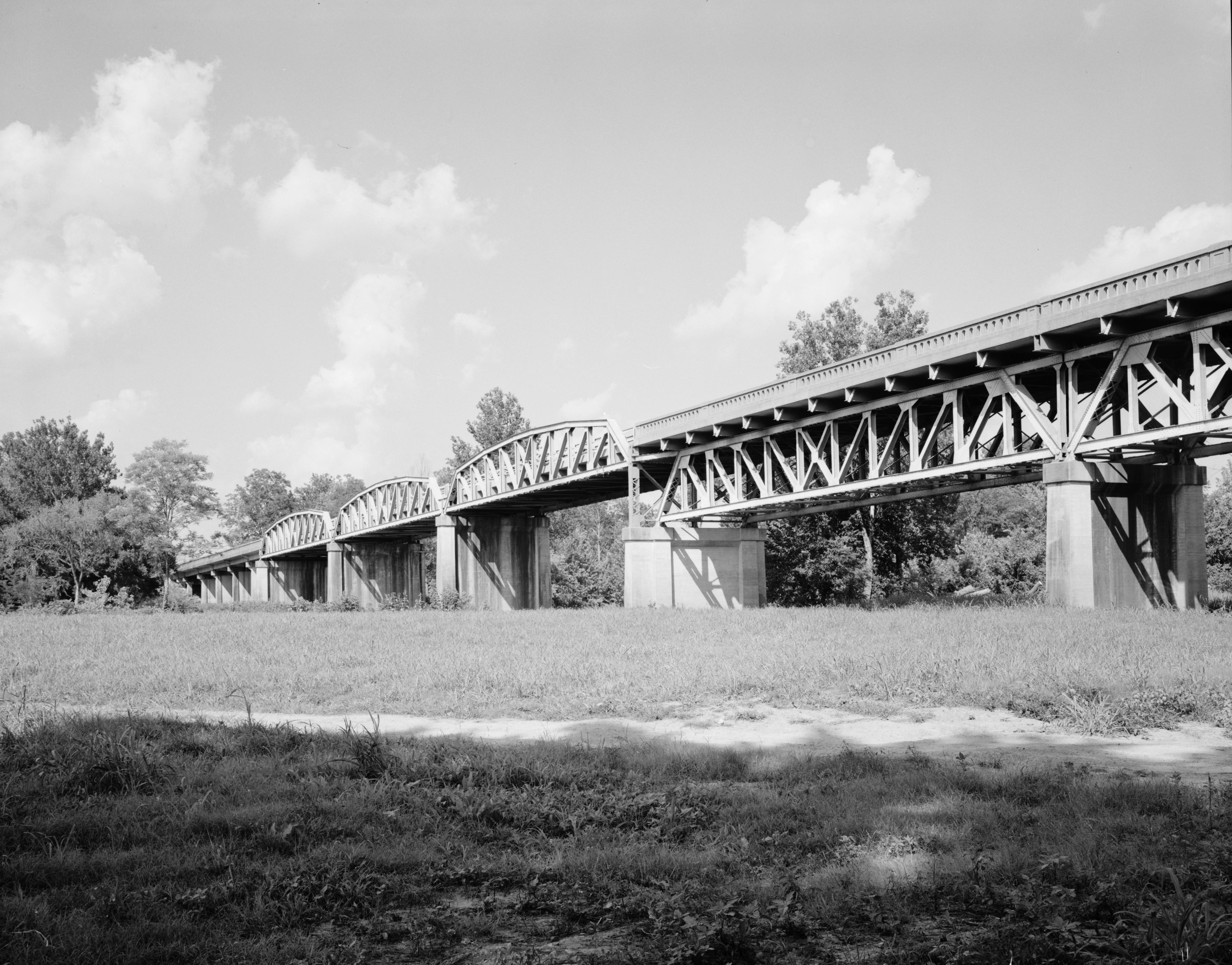 St. Louis - San Francisco Bridge, Spanning Spring River at U.S. Highway 62, Imboden (Lawrence County, Arkansas)